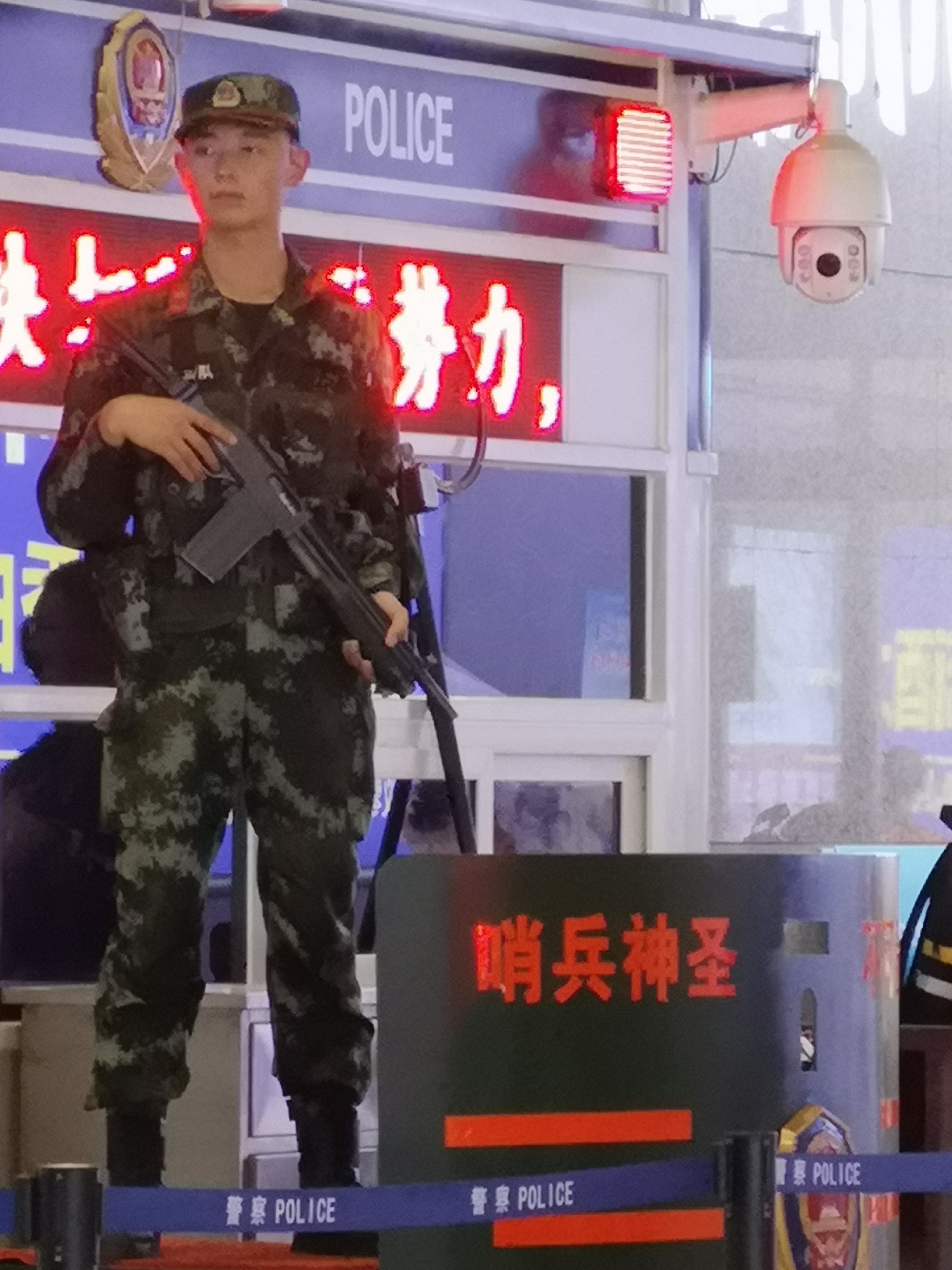 An armed Chinese policeman stands guard with a Hawk Industries Type 97 shotgun at the Xi'an North Railway Station. Behind him flashes bright LED signs reading Chinese (presumably offering help), and watches a CCTV camera. The Xi'an North Railway Station has operated all high-speed G- and D-series train services of Xi'an since its opening on 11 January 2011